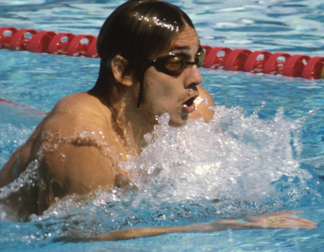 “Alexander Sidorenko, USSR Merited Master of Sports”. Alexander Sidorenko, USSR Merited Master of Sports, repeated USSR champion in multi-style swimming, world record holder in 200 m race, 1979 best USSR swimmer, champion of the 1980 Olympic Games in 400 m race.